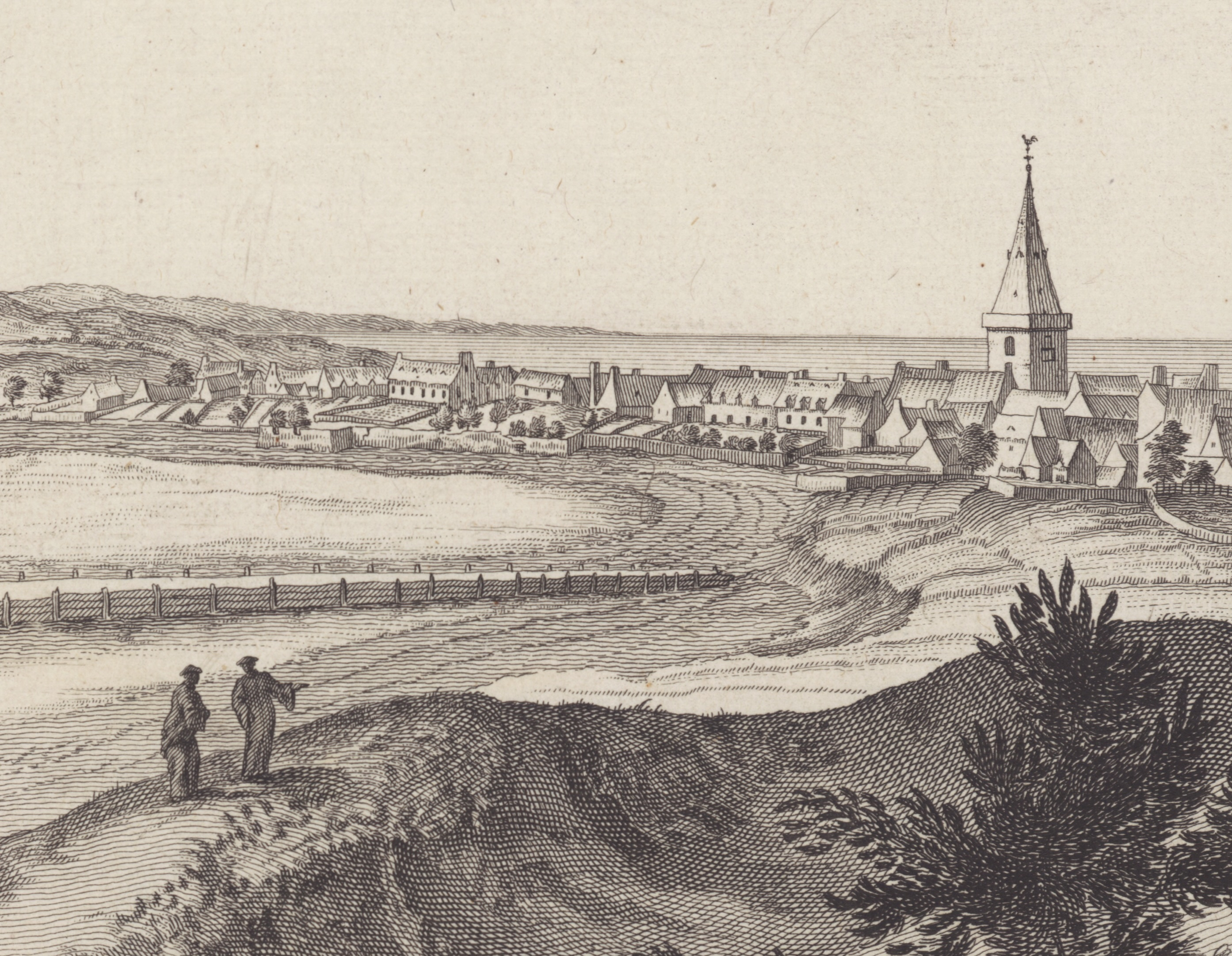 A view of Montrose from a 1678 drawing by John Slezer, showing Dronners' Dyke.